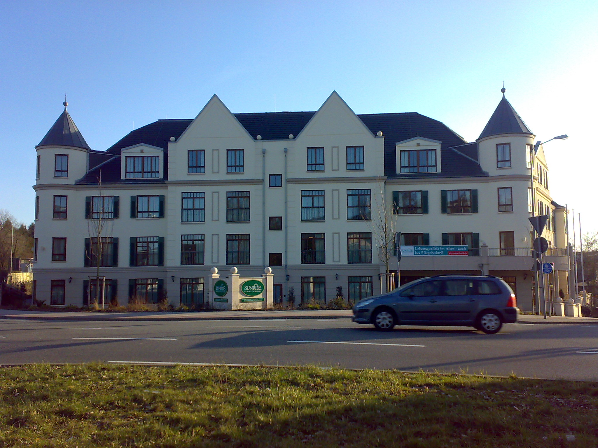 Sunrise Retirement home in Königstein im Taunus, Germany